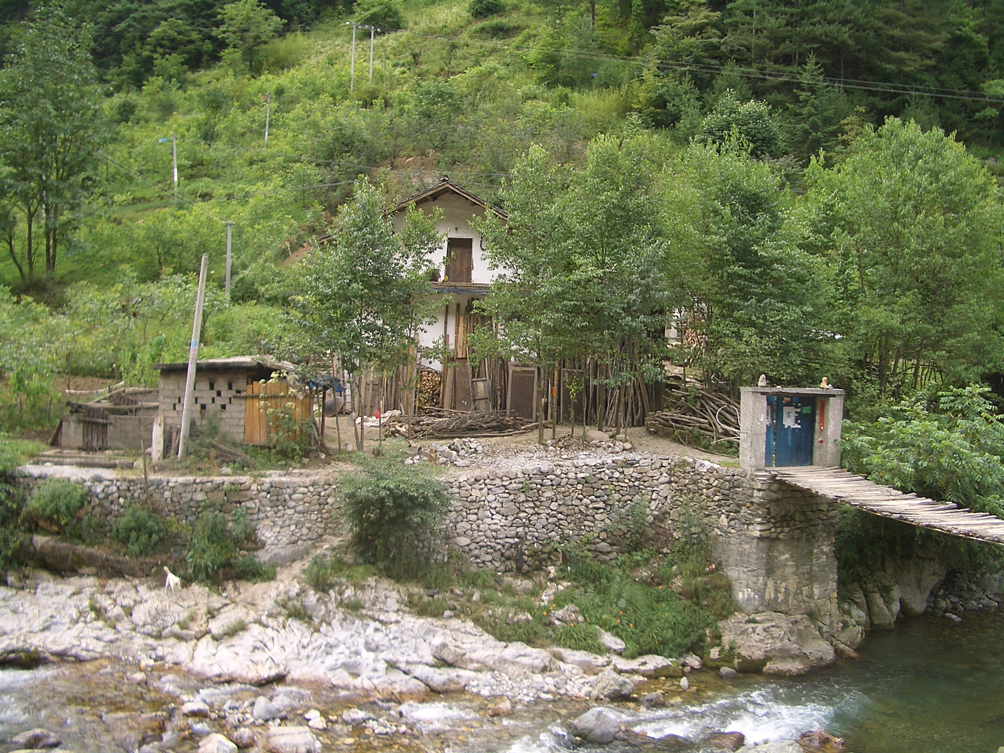 A lonely farm house near China National Highway 209 between Yazikou Junction and Wenshui Village (within Hongping Town jurisdiction), in Shennongjia Forestry District. Located across the stream from the road, it is connected to the road with a small bridge